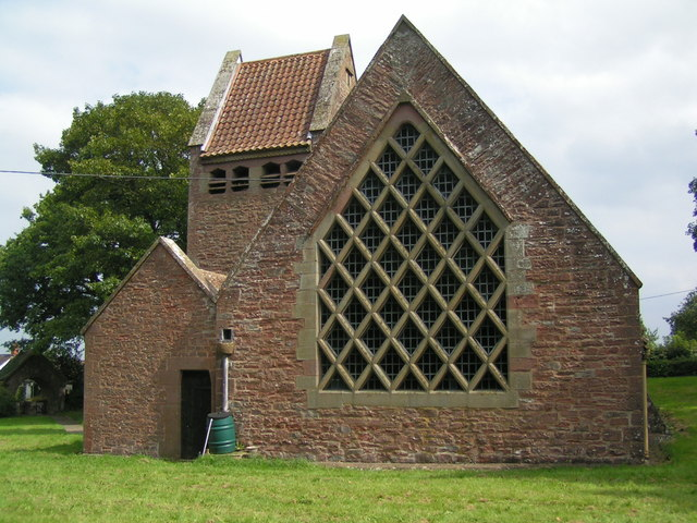 St Edward the Confessor parish church, Kempley, Gloucestershire, seen from the southwest